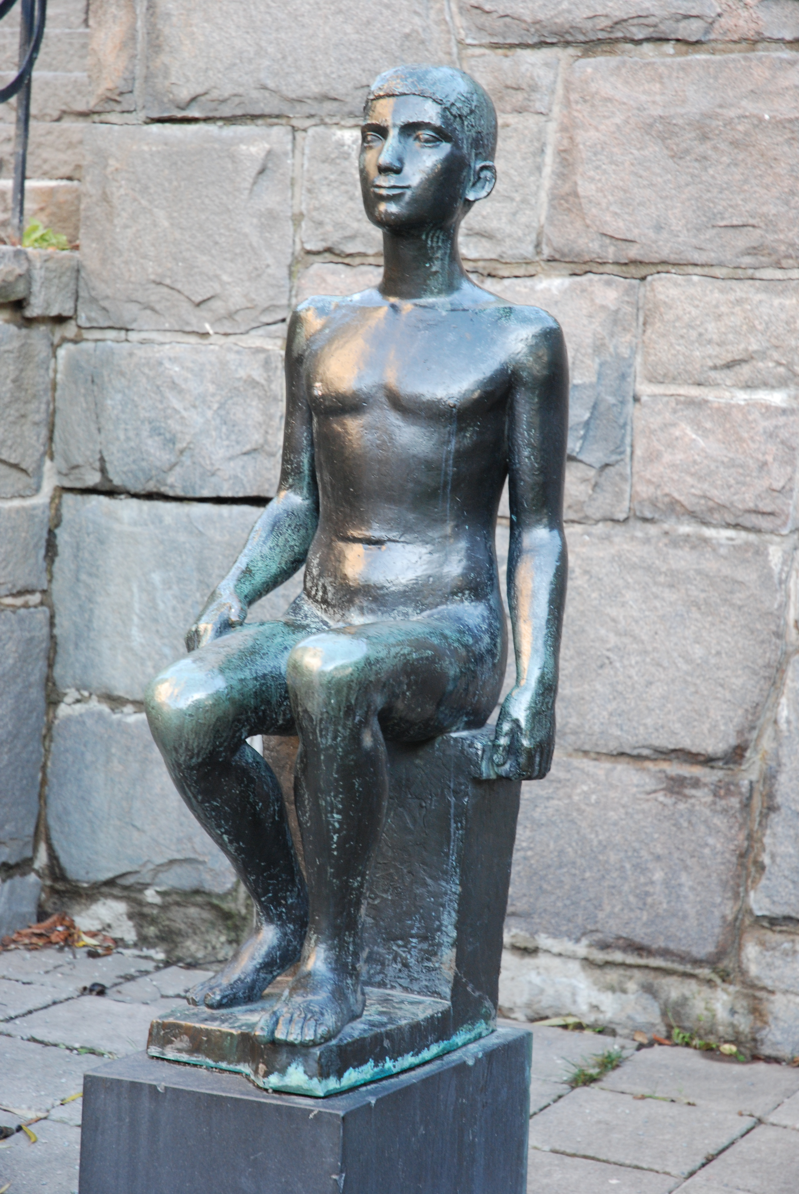 Bror Marklund´s Seated boy (Sittande pojke), bronze, 1936, Västertorp, Stockholm, Sweden